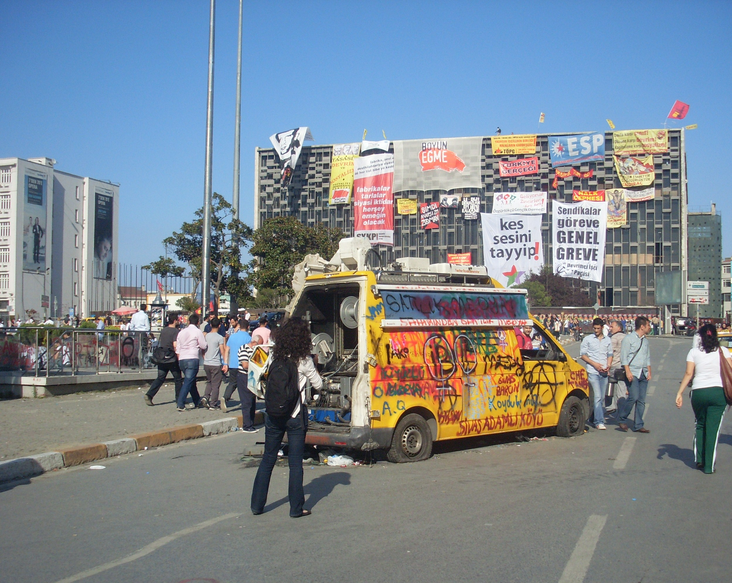 2013 Taksim Gezi Park protests, a view from Taksim Square 3 on 4th June 2013